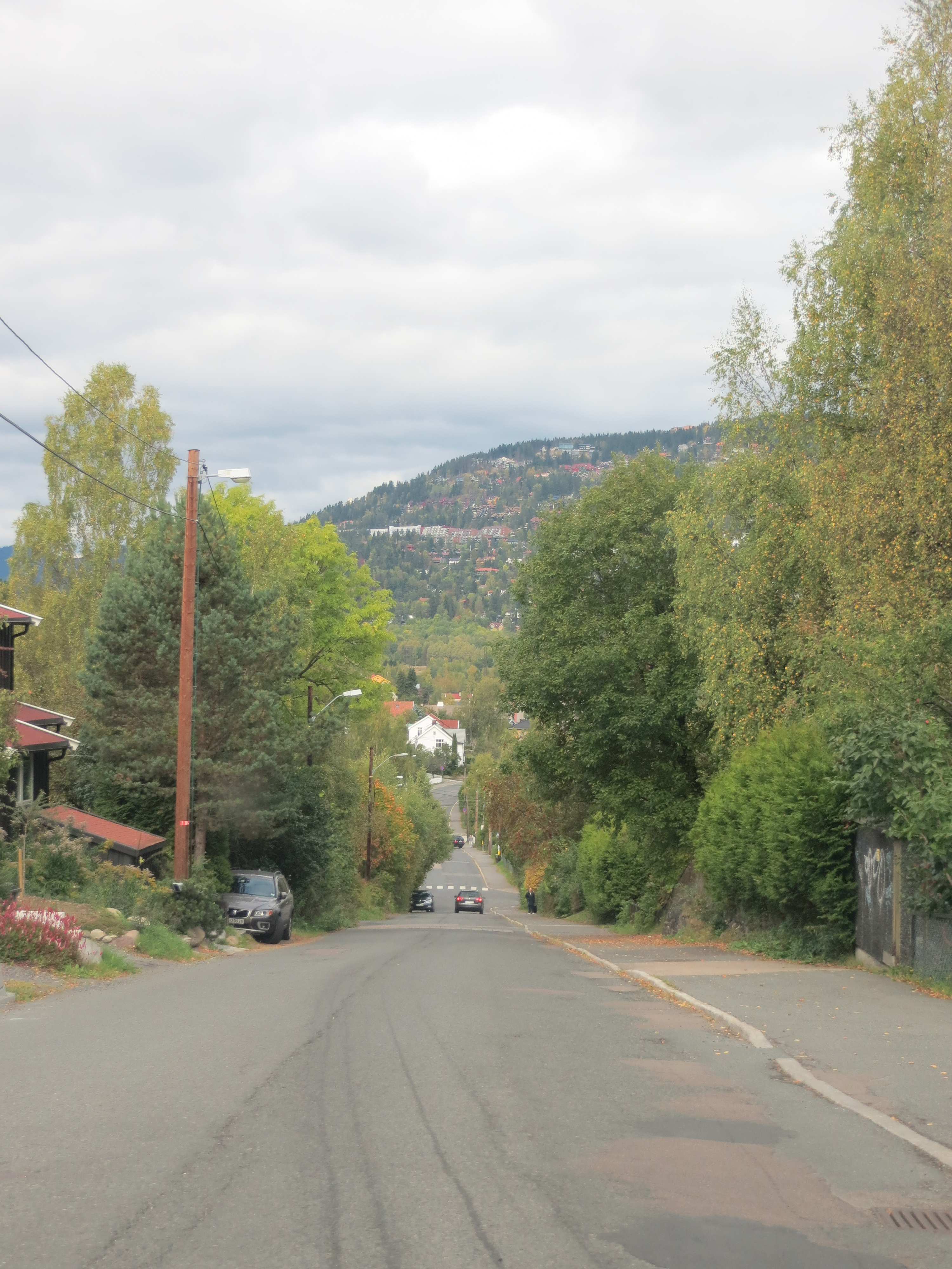 Image from the road Ostadalsveien, at Røa (Vestre Aker District) in Oslo, Norway